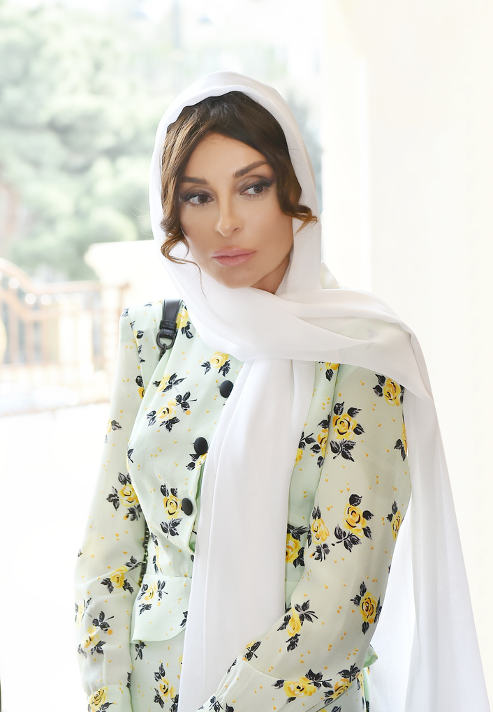 Ilham Aliyev attended opening of new building of Haji Javad mosque